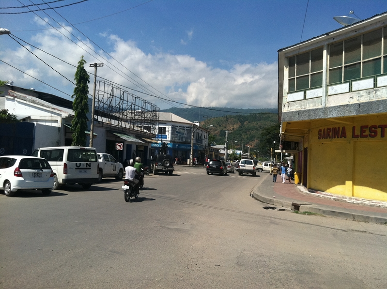 Colmera, Dili